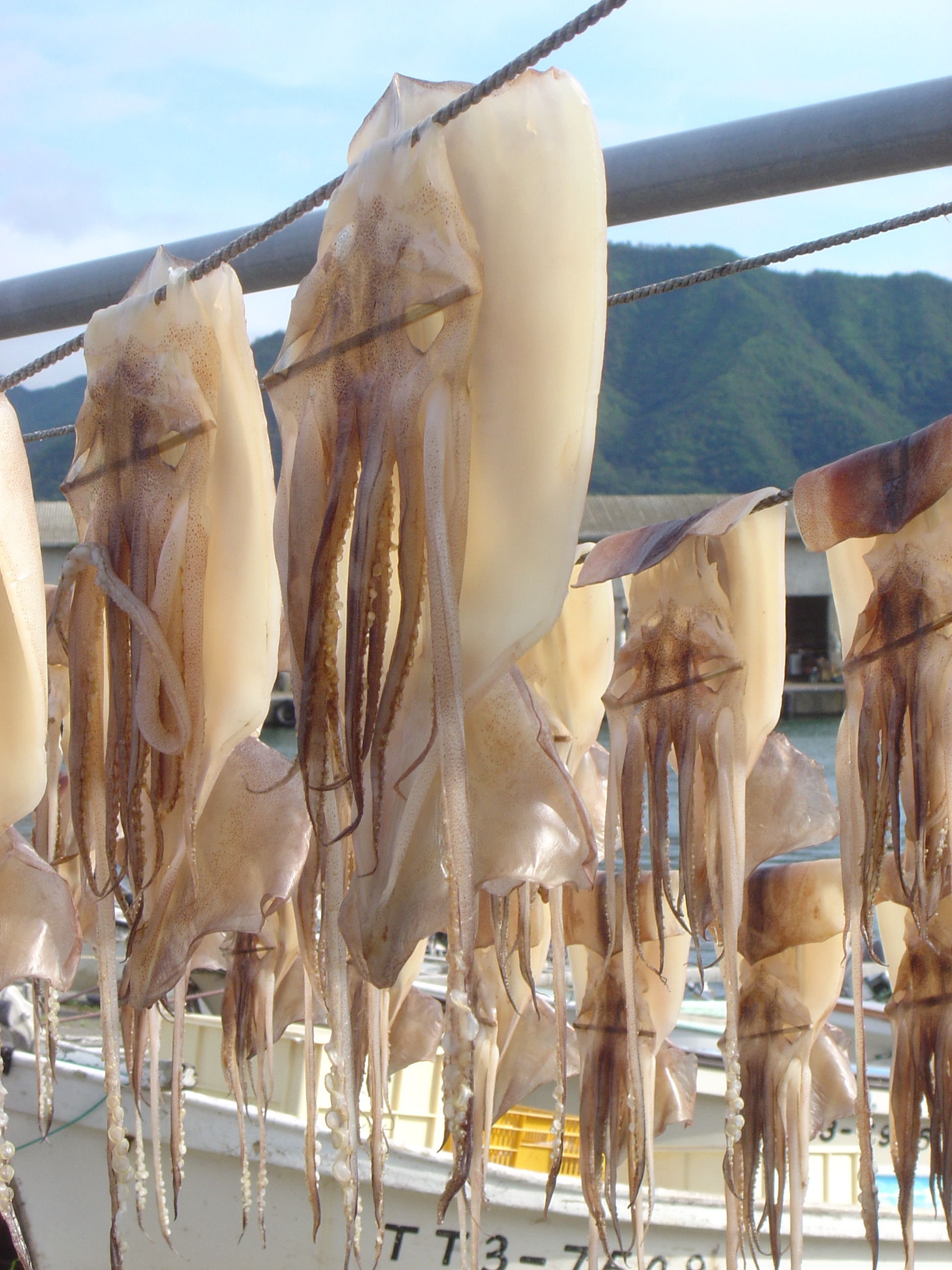 Phylum: Mollusca - Class: Cephalopoda; squid drying in Iwami, Tottori prefecture, Japan.